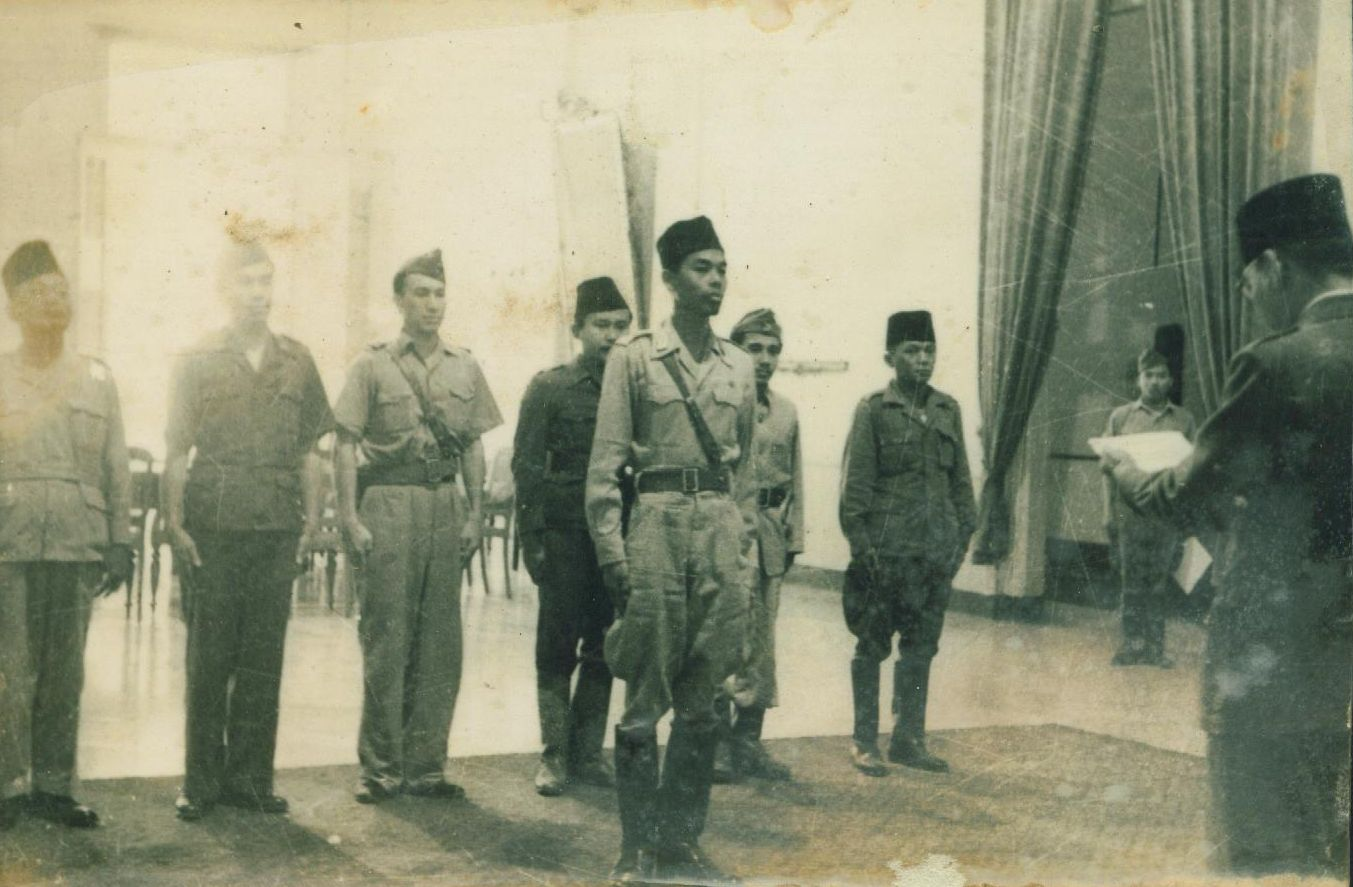 Sukarno, president of Indonesia, swearing in Sudirman as chief of armed forces in Yogyakarta, 15 February 1947